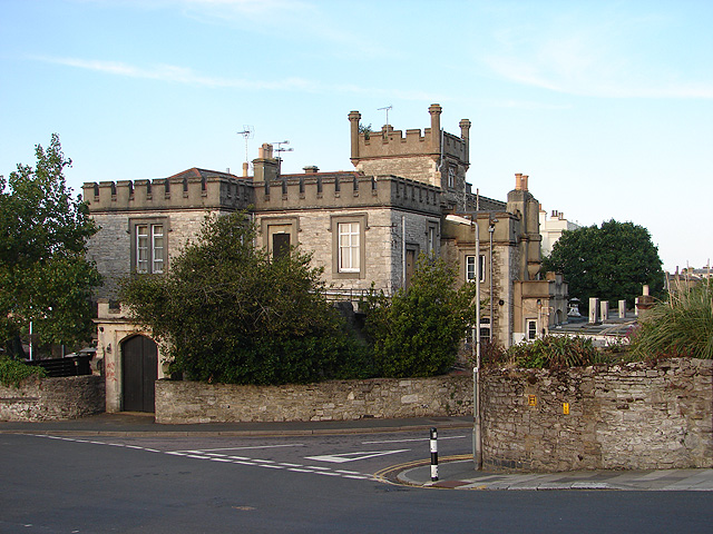 Ryde Castle Hotel Viewed here from Dover Street. The hotel web site implies that it dates from Tudor times but the current building is in fact Victorian, built as a mock castle. There are no records other than the hotel's own claim, that there was ever a fort of any description on the site prior to the current building. Maps of the area show no structures on the site before the 19th Century.